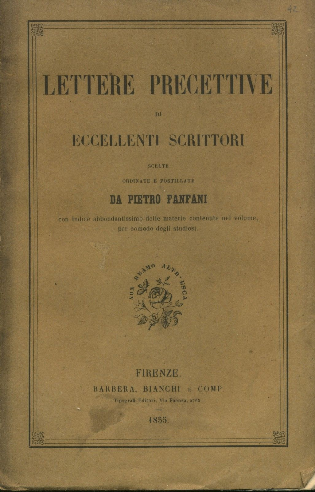 front page